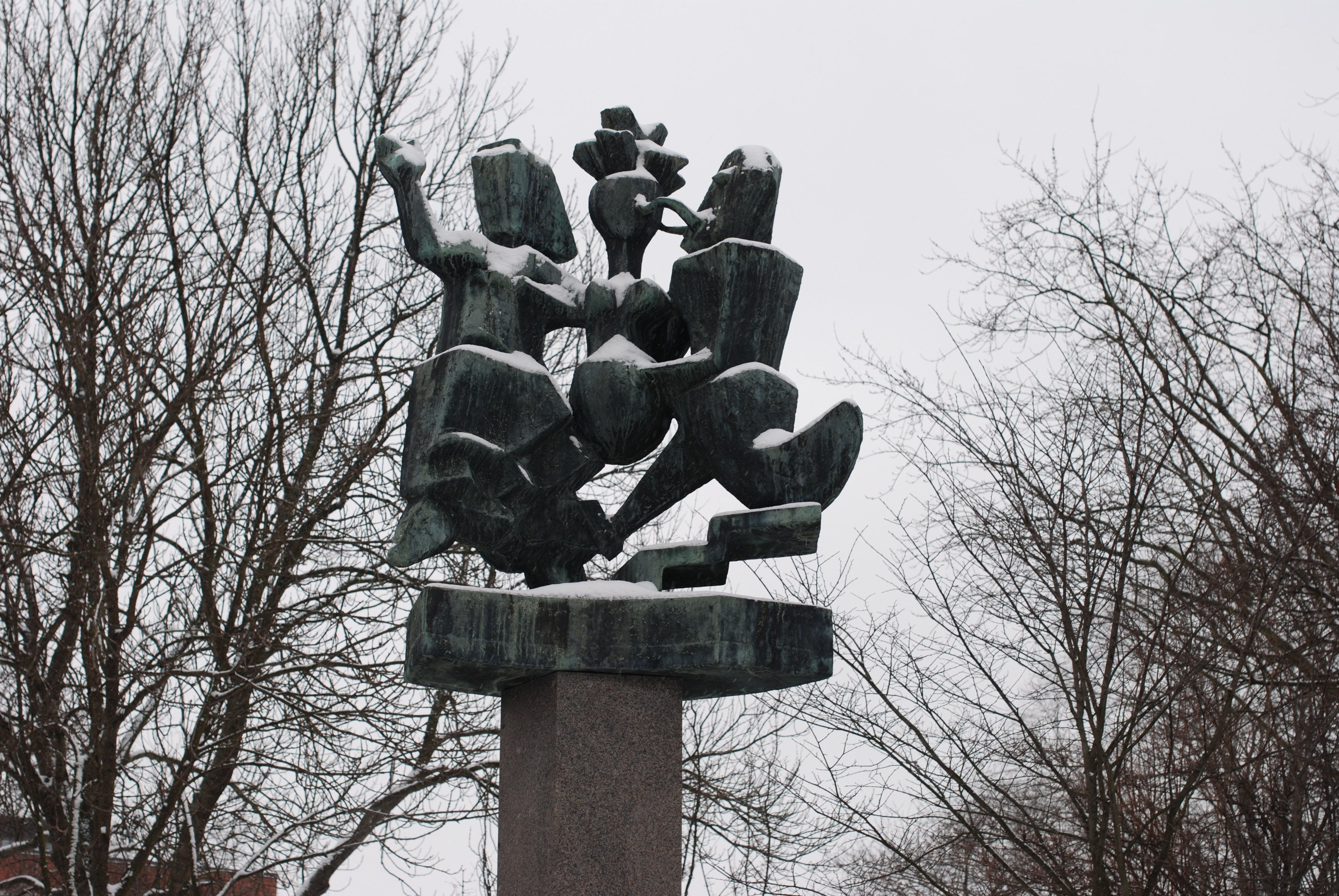 Eric Grate´s Det entomoliska kvinnorovet (Entomological woman theft), 1958 outside Karolinska Institutet in Solna, Sweden